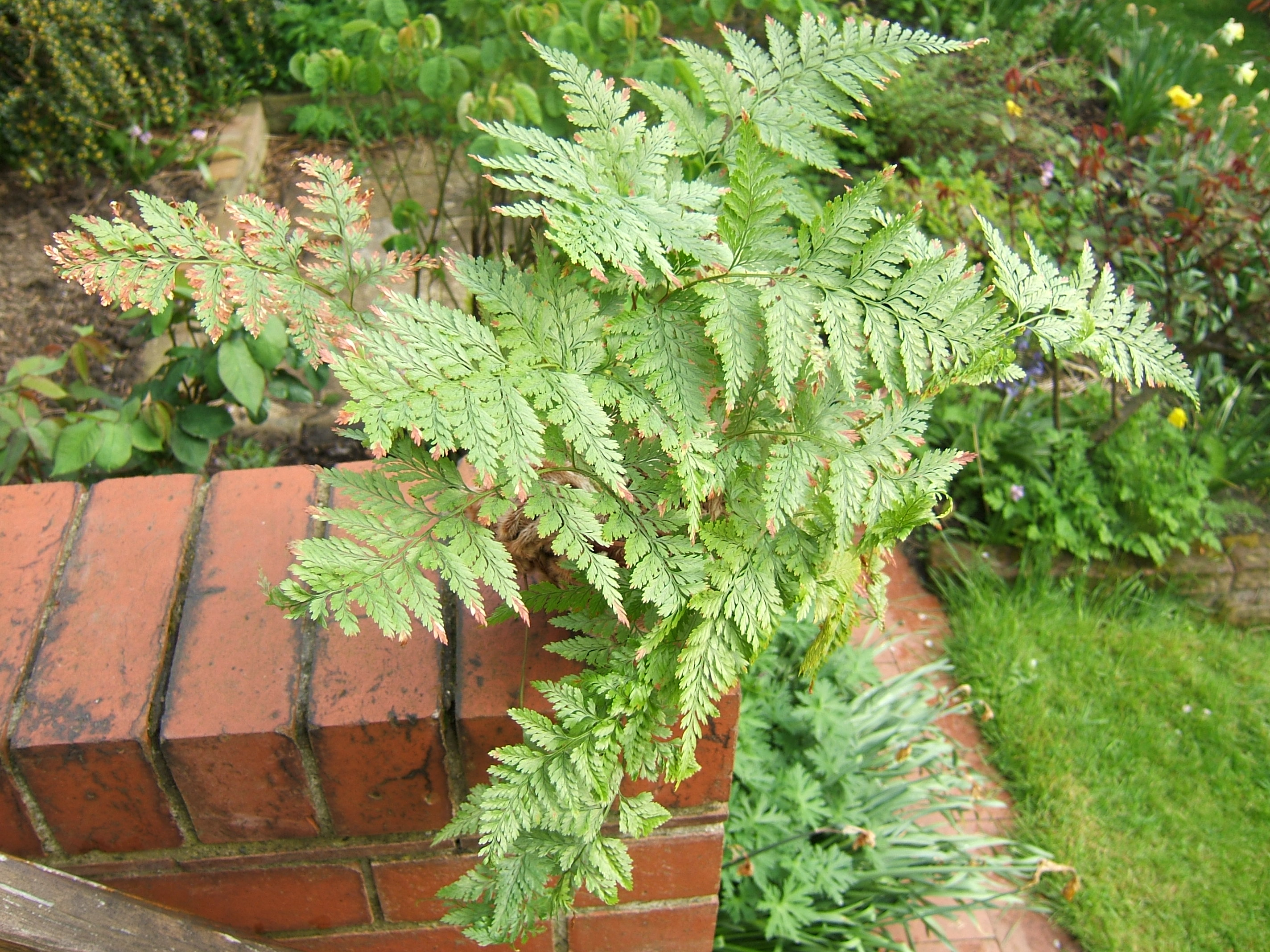 Davallia canariensis. Cultivated, UK. May 2006.